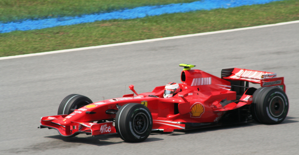 Kimi Räikkönen driving for Ferrari at the 2007 Malaysian Grand Prix.